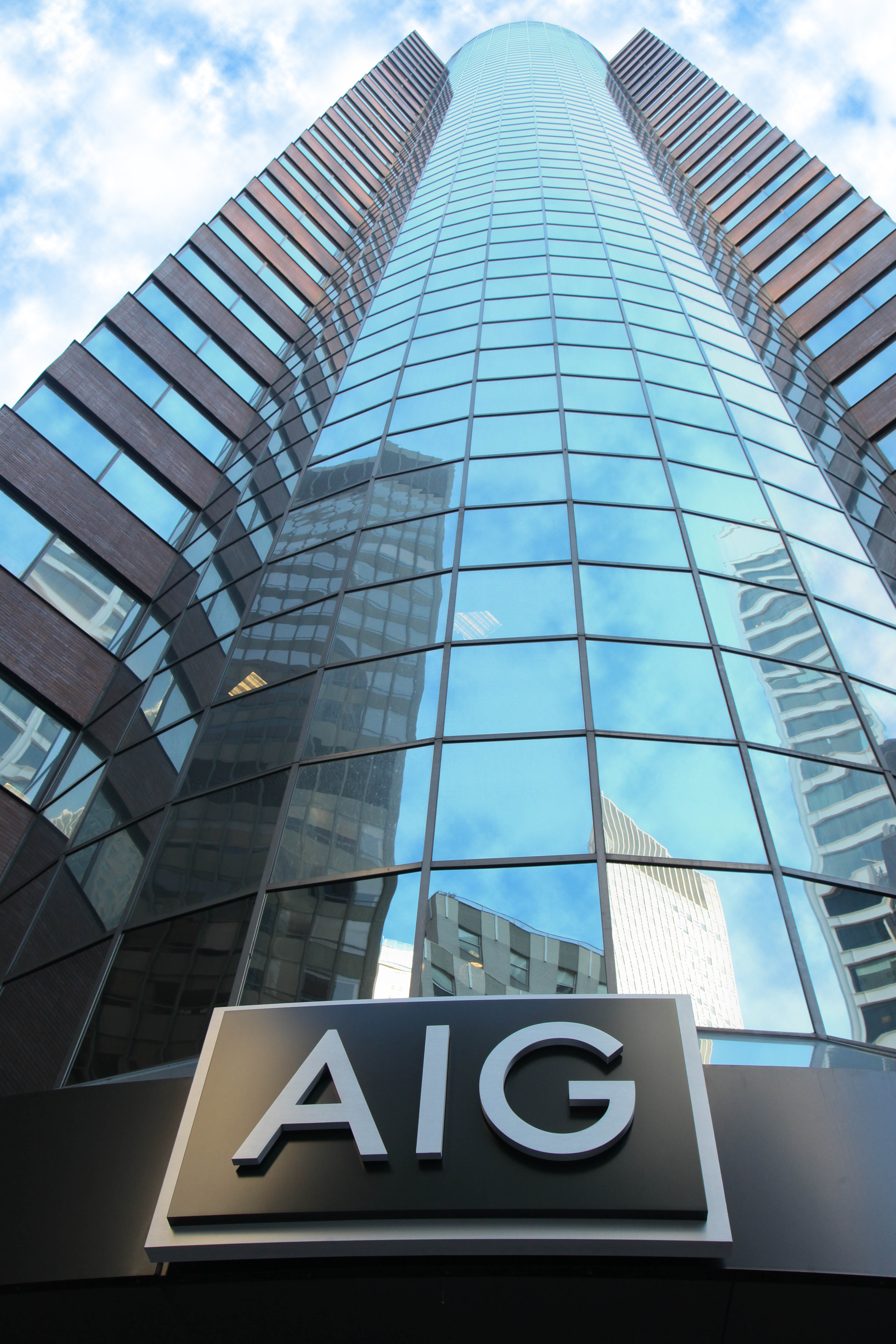 AIG headquarters on 175 Water Street New York City